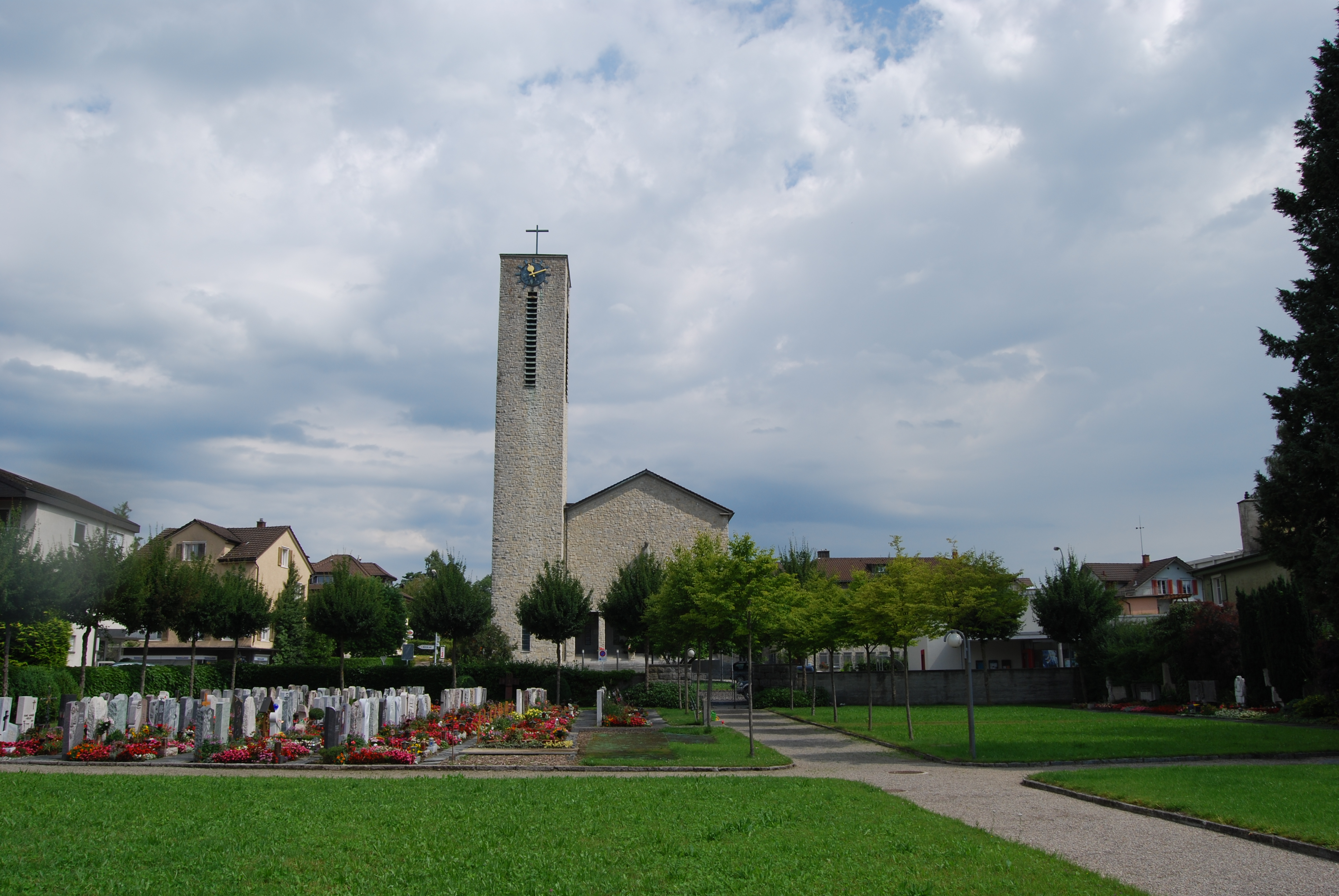 Catholic Church Flawil, canton of St. Gallen, Switzerland